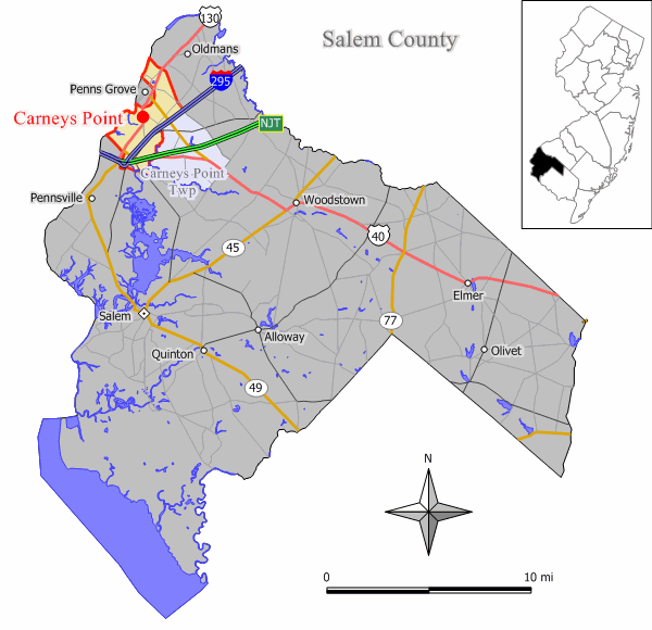 Source: Jim Irwin Original work by Jim Irwin, December 2005.